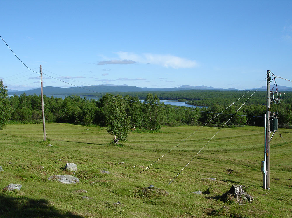 Lake Virisen in river Vapstälven, viewed från the settlement of Bojtiken.